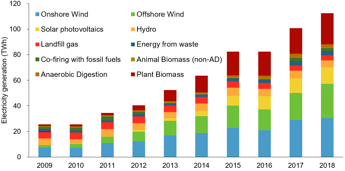 Chart showing UK renewable energy electricity generation between 2006 and 2010